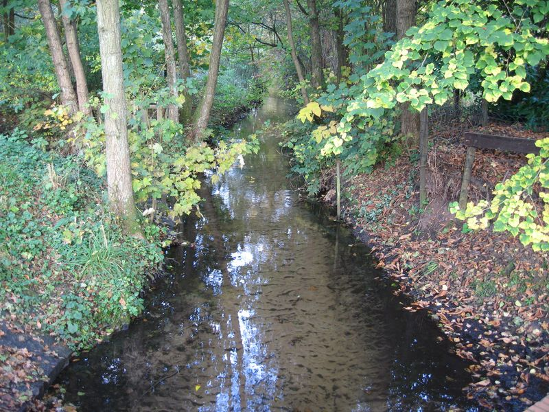 Sproetzer Bach